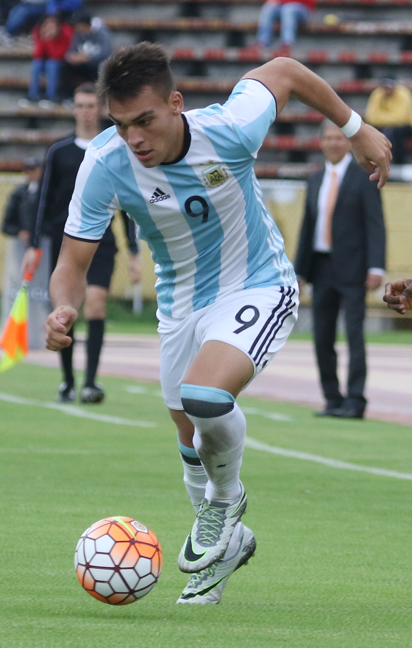 Quito, 2 de febrero del 2017 (Andes).- La escuadra argentina necesitaba ante Colombia un buen resultado para sacudirse del 0-3 recibido en la primera fecha frente a Uruguay y lo consiguió con goles en el minuto uno y el 92, con los que venció 2-1 a Colombia en la segunda fecha del Sudamericano Sub 20 Ecuador 2017. ANDES/Micaela Ayala V. This file comes from the Flickr stream of the Public News Agency of Ecuador and South America and is copyrighted. This file is verified as being licenced under an appropriate Creative Commons licence. In short: you are free to modify the file as long as you attribute Photographer name/Andes and distribute it under the same licence. This tag does not indicate the copyright status of the attached work. A normal copyright tag is still required. See Commons:Licensing for more information. English | español | +/−